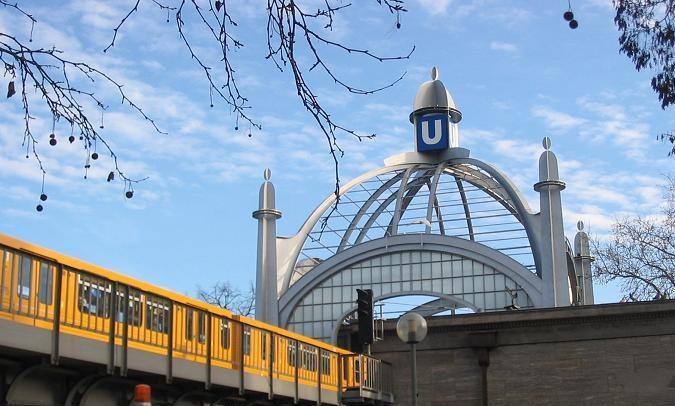 U-Bahn Berlin, station Nollendorfplatz (U1-U4) with the coppula